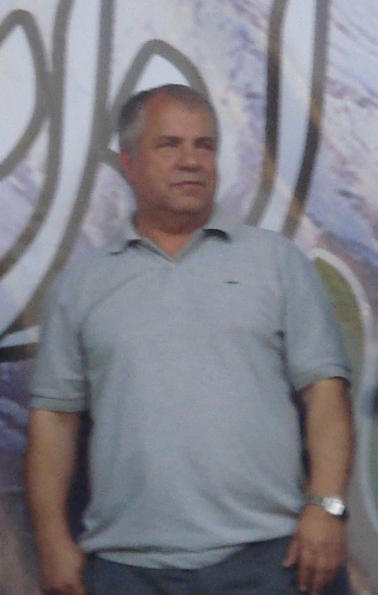 Ali Parvin, Mohammad Bagher Ghalibaf's supporters meeting